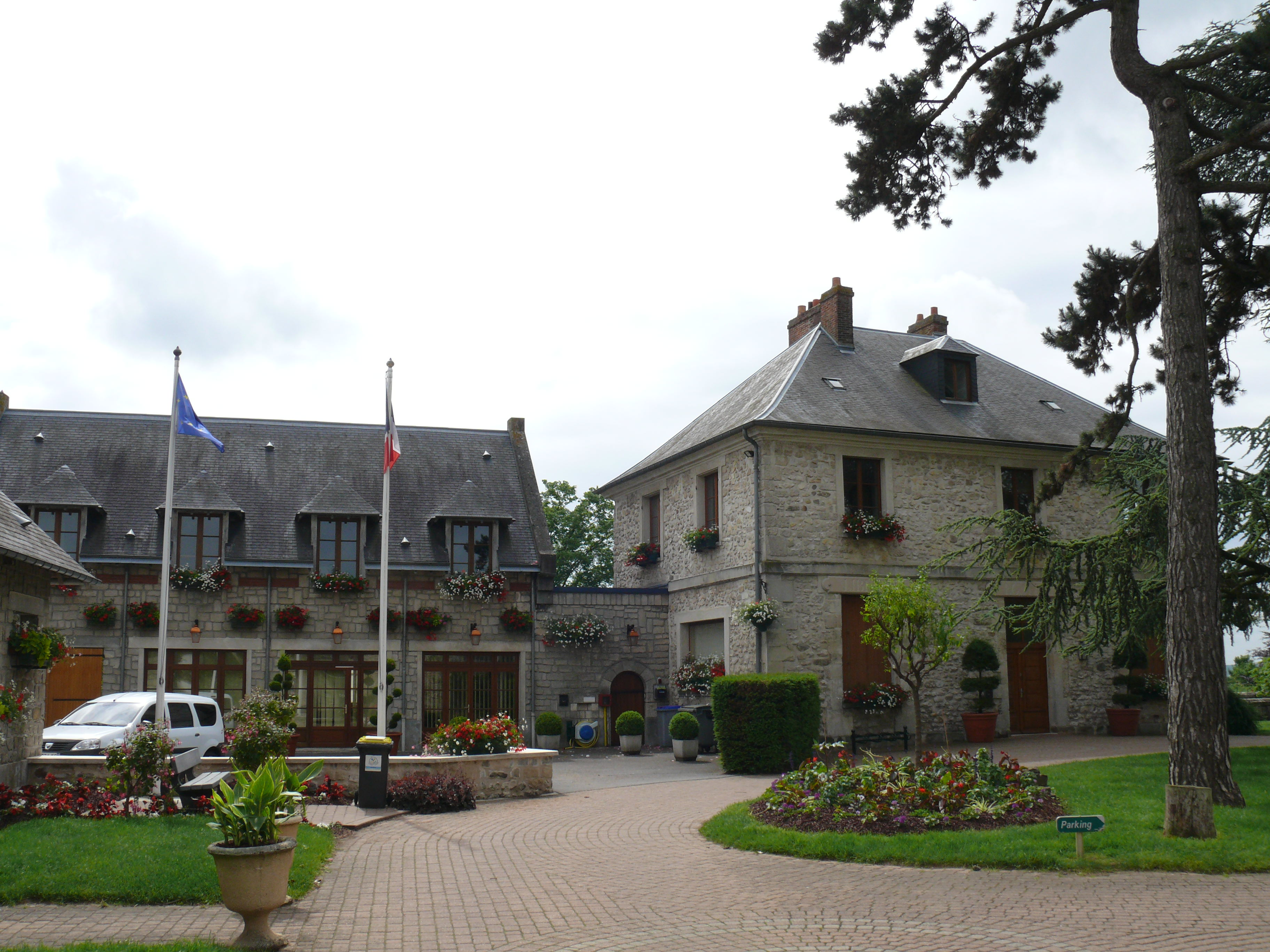 The town hall of Le Plessis-Belleville (Oise, Picardie, France).